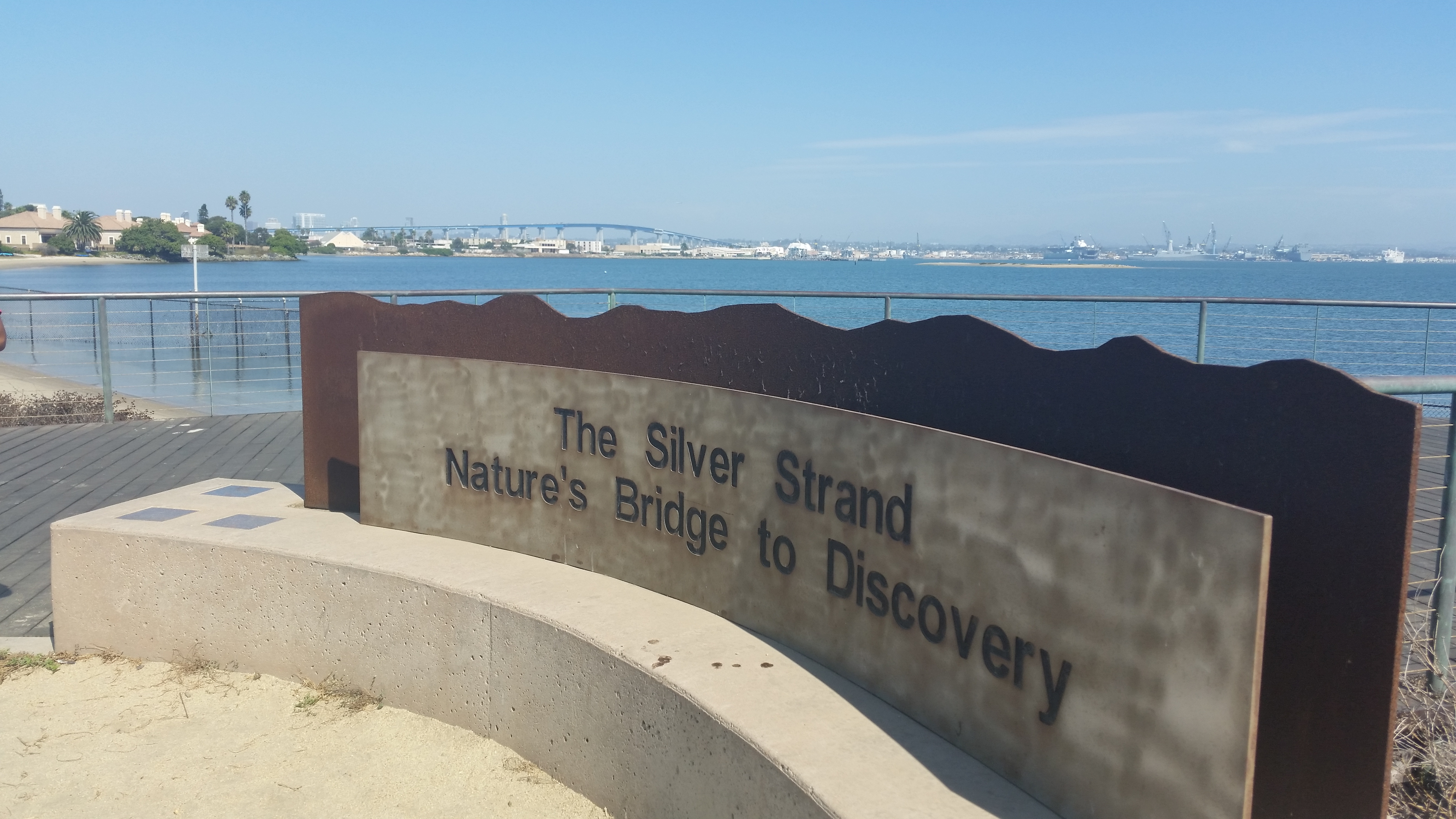 A sign just south of Naval Base Coronado proper, just off the Silver Strand portion of the Bayshore Bikeway. Naval Base San Diego and NASSCO in the background.